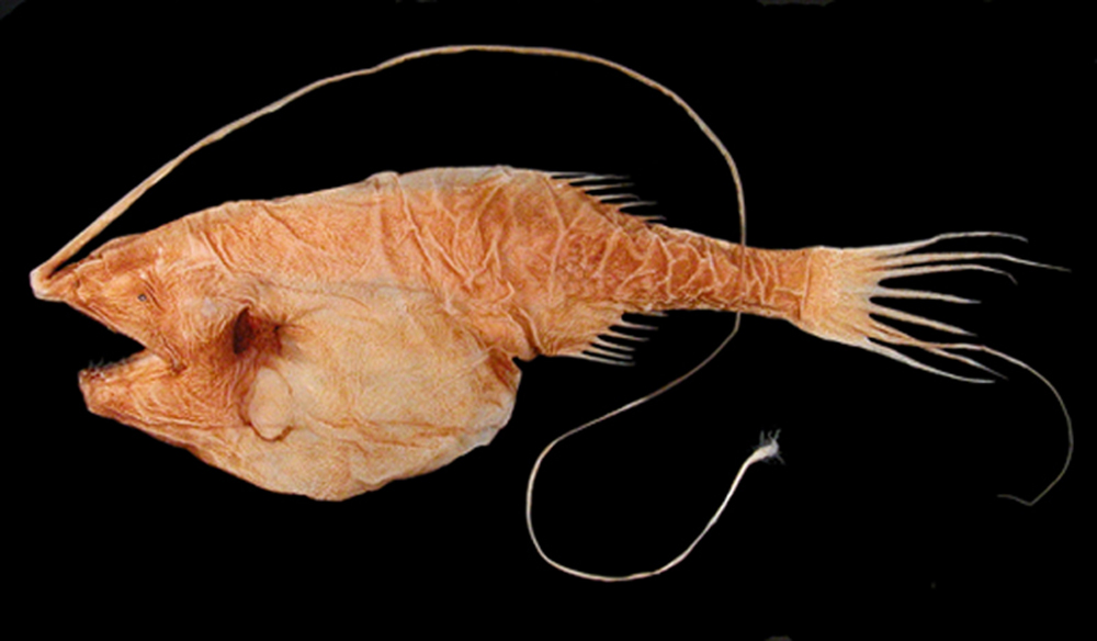 Gigantactis spp